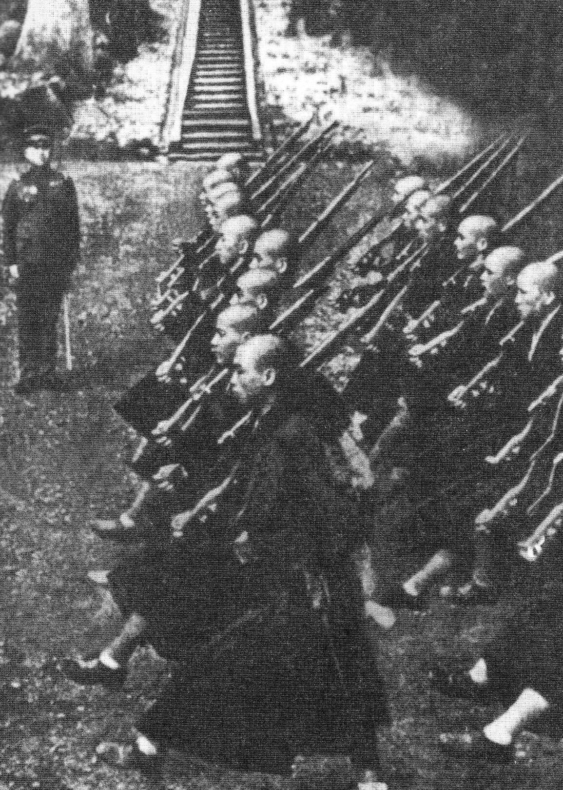 Monaci Zen dello Eihei-ji, Giappone, 1938. This photographic image was published before December 31st 1956, or photographed before 1946 and not published for 10 years thereafter, under jurisdiction of the Government of Japan. Thus this photographic image is considered to be public domain according to article 23 of old copyright law of Japan and article 2 of supplemental provision of copyright law of Japan.